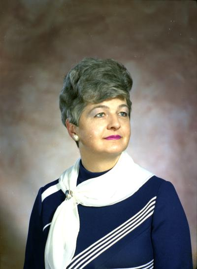 Representative Lorraine Wojahn, 1971